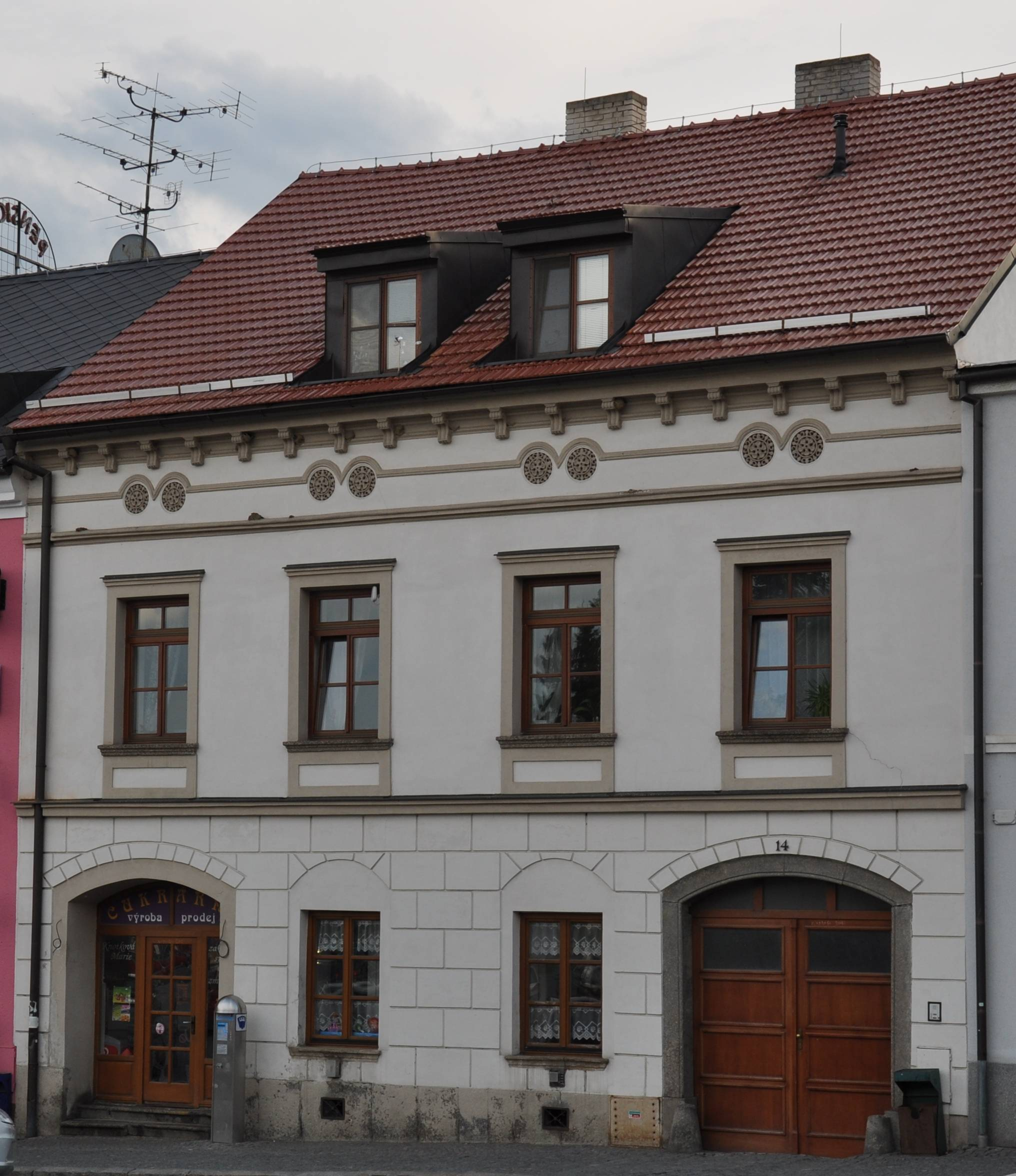 Dům č.p. 14 - Velká Bíteš